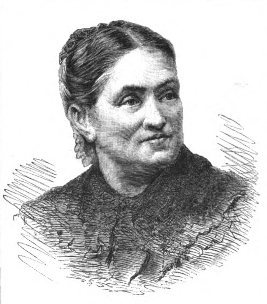 Lina Schneider (1831–1909), German writer, translator, and teacher